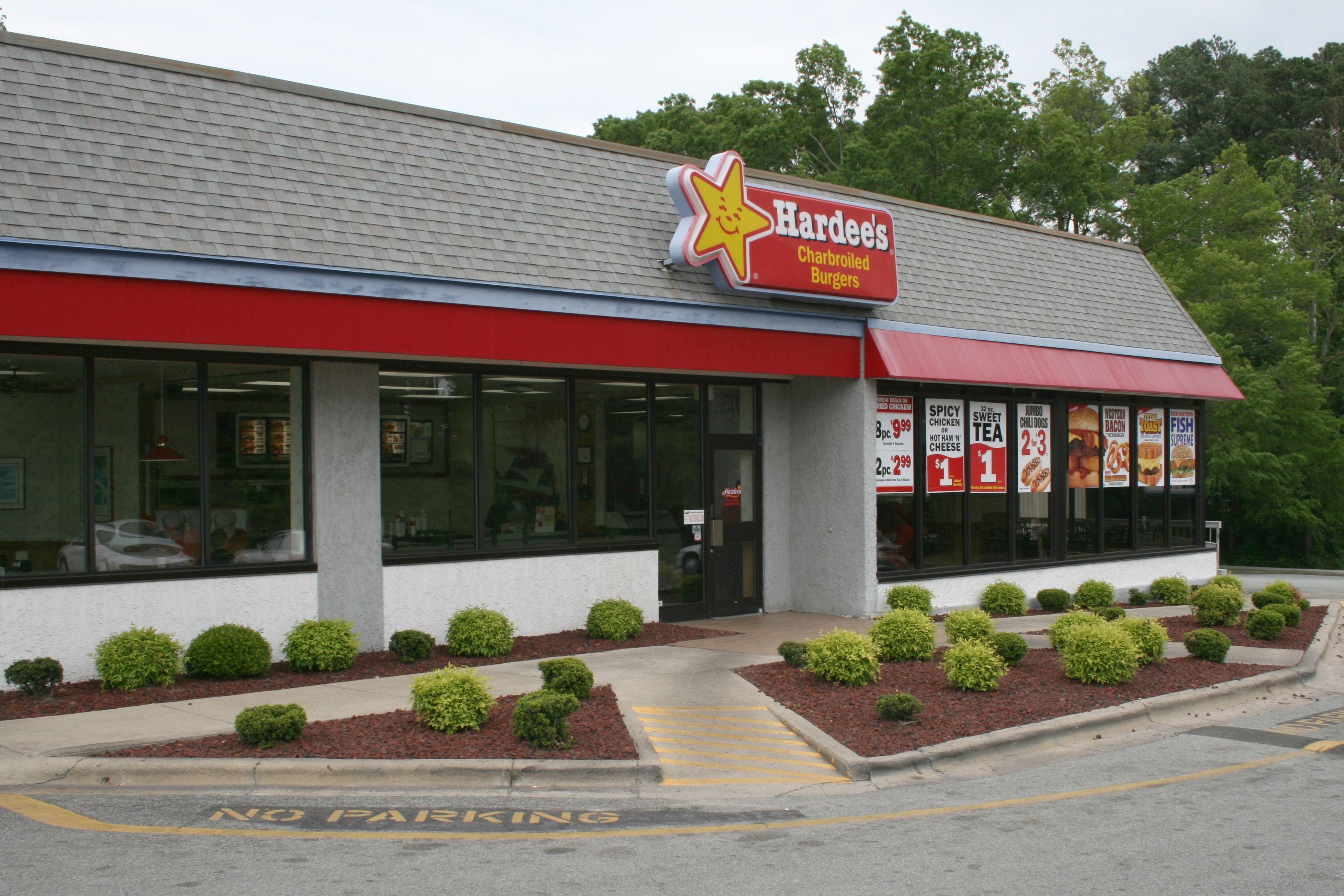 Hardee's restaurant at 2721 Durham-Chapel Hill Boulevard in Durham, North Carolina.